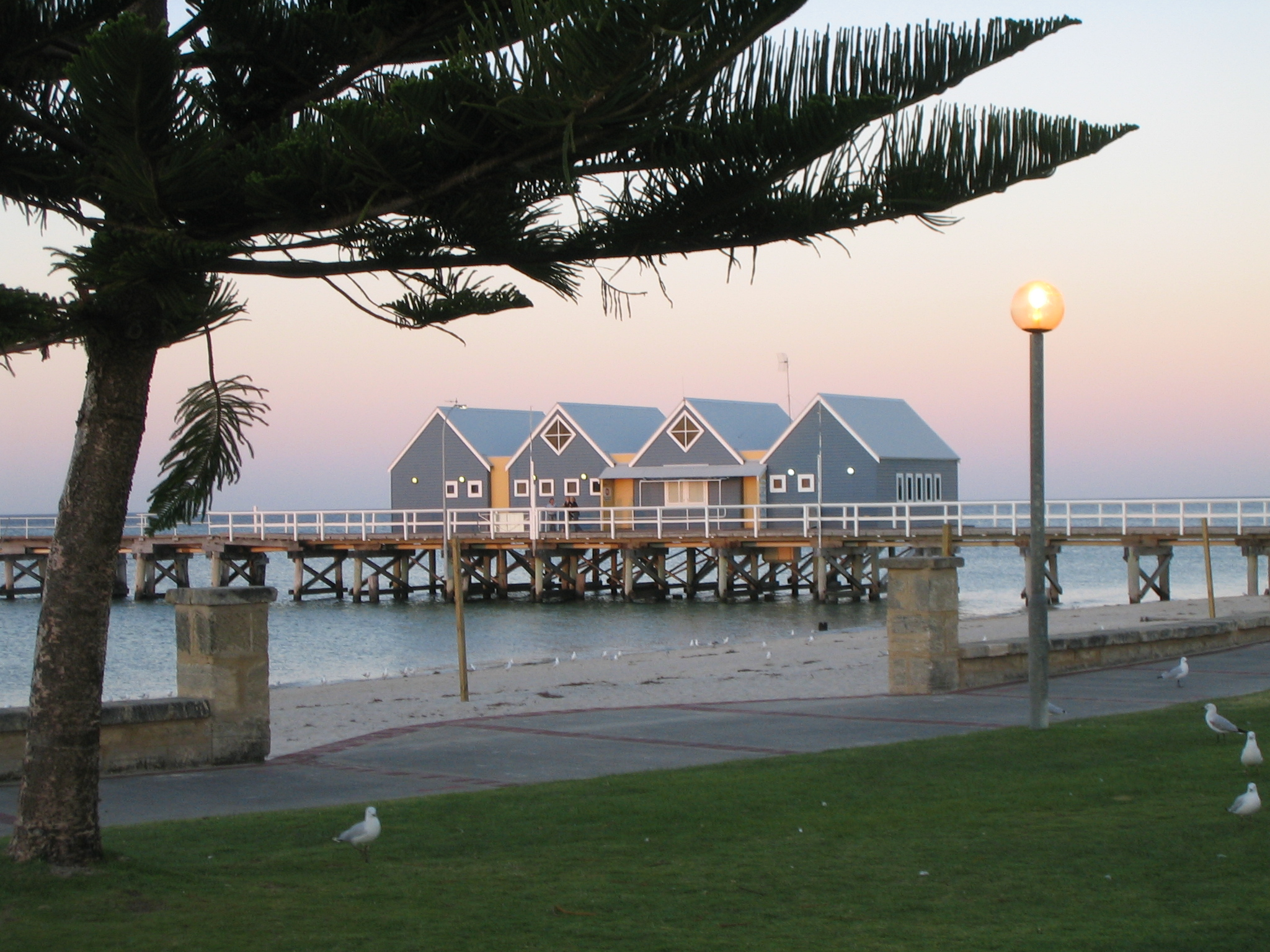 Busselton foreshore at sunset, Western Australia.